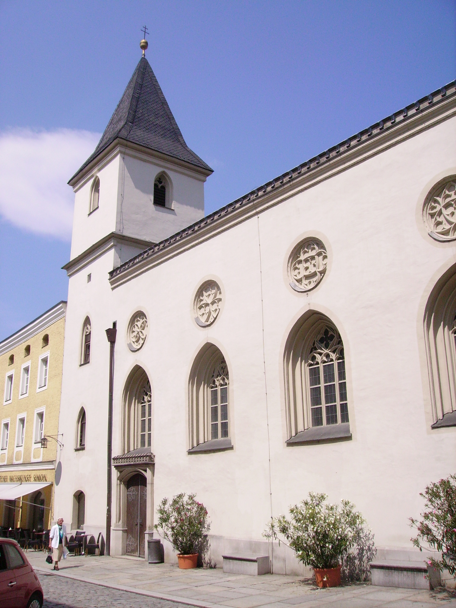 Saint John the Batpist church in Passau, Germany